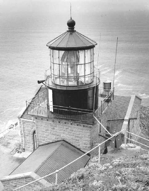 Public Domain statement here; Point Sur Lighthouse is a lighthouse located on Point Sur, California, USA, 135 miles (217 km) south of San Francisco.